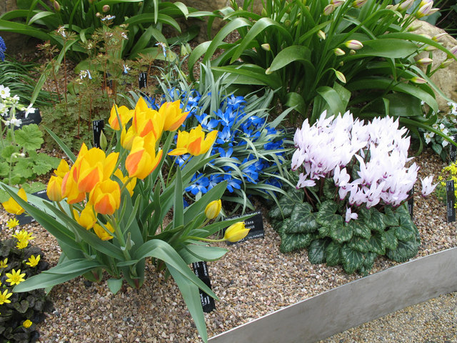 Alpines in the Davies Alpine House Alpine Tulips, Cyclamen and Chilean Blue Crocus produce a fine splash of colour on a cool April morning in the new Alpine house. The RBG's are currently looking at ways of returning the crocus to the wild in its native Chile, where it has become extinct.